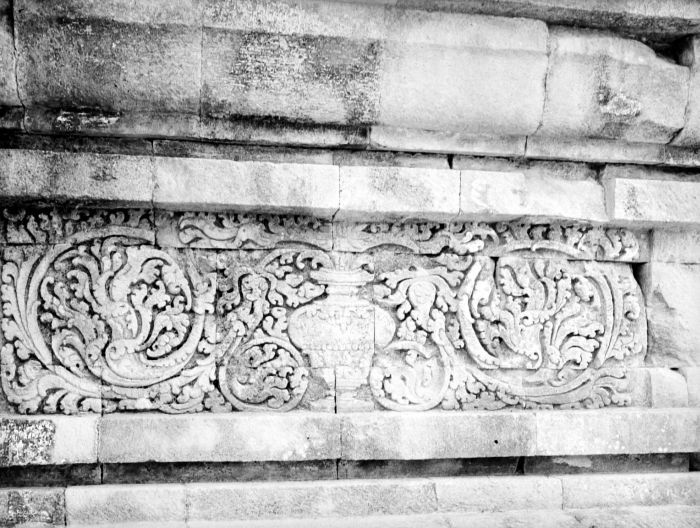 Relief at the Candi Kalasan